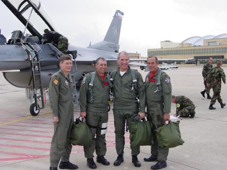 Bob Beauprez, in a military-issue flight suit.